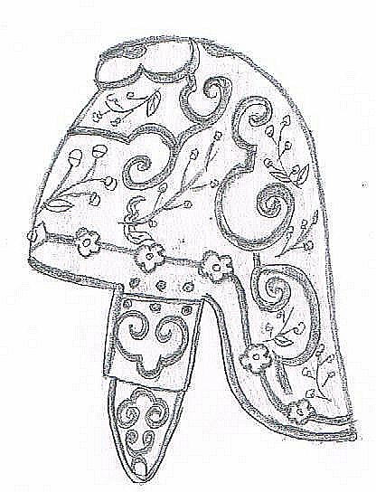 Venetian Helmet